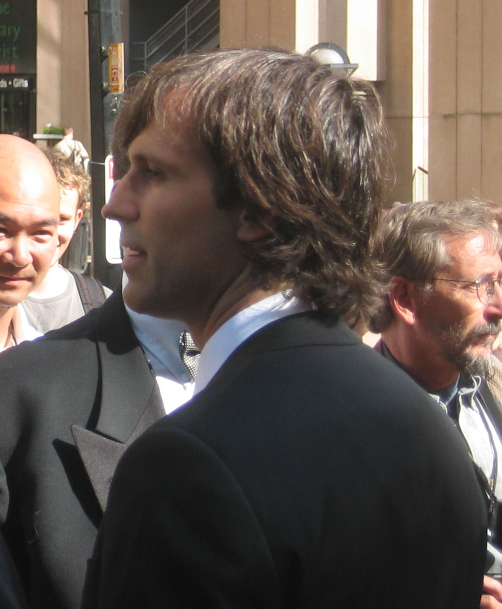 Scott Niedermayer at the 2006 NHL Awards. Vancouver, BC, Canada.